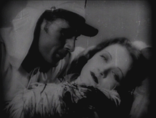 Cropped screenshot of Gary Cooper and Marlene Dietrich from the trailer for the film Morocco